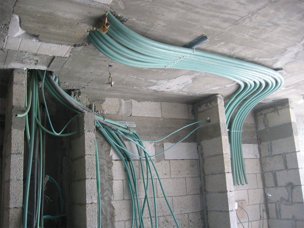 Cable ducts. It's very suitable way of wiring, cause you shouldn't break the wall to replace cable. But, however, cable immurement into the wall is more spread, than cable ducts.